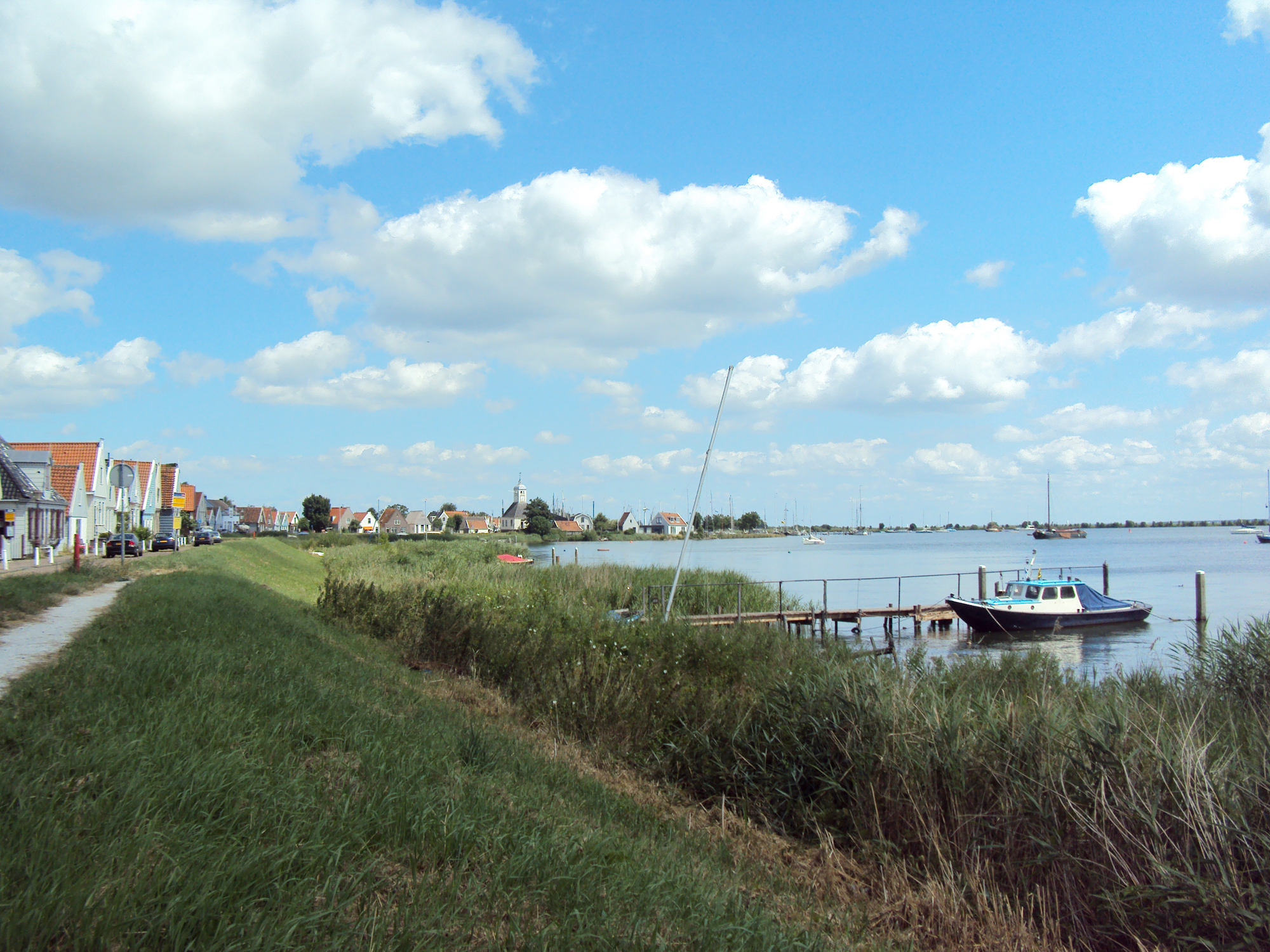 Durgerdam, a small village north of Amsterdam